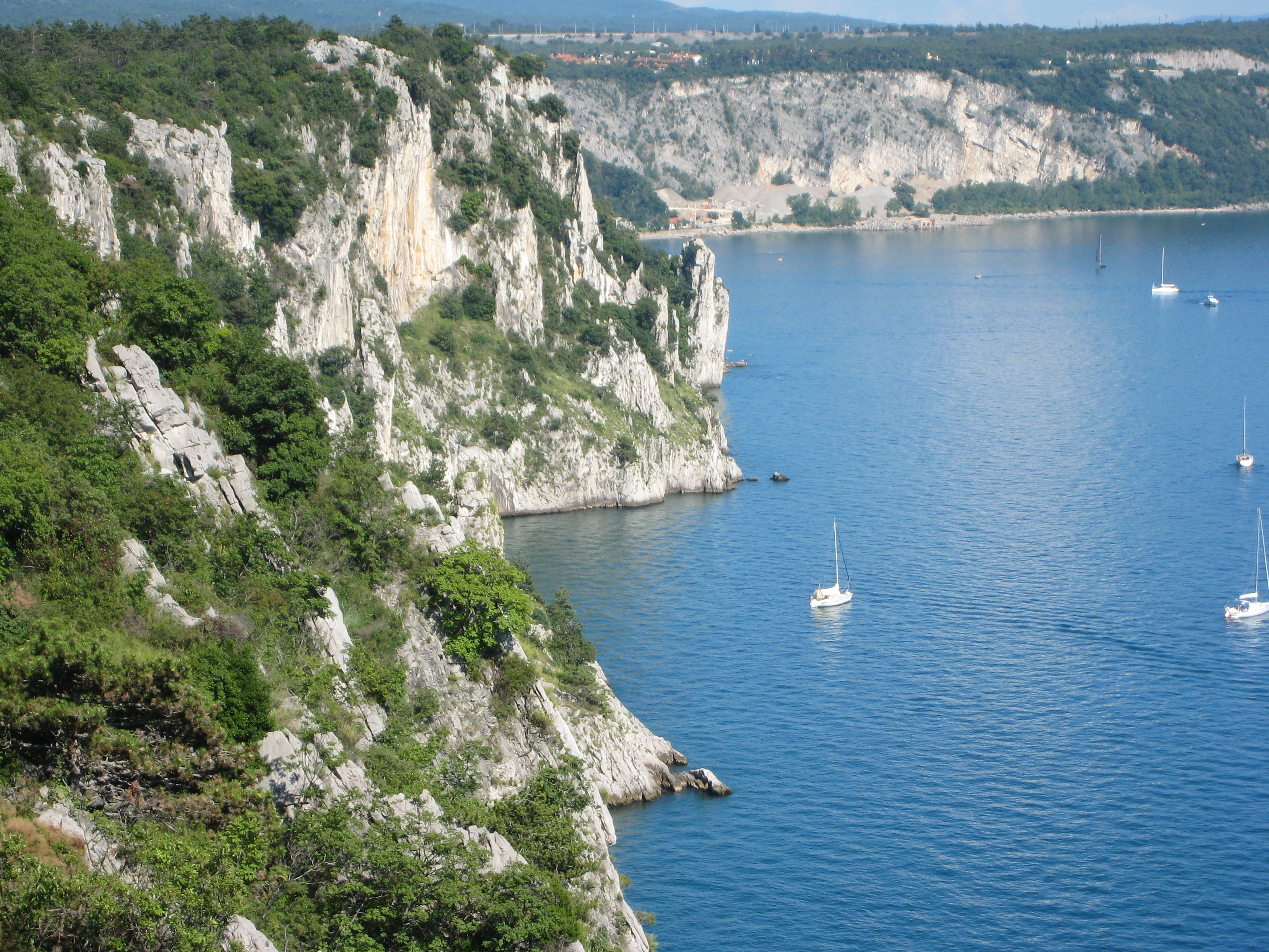 Rilke path